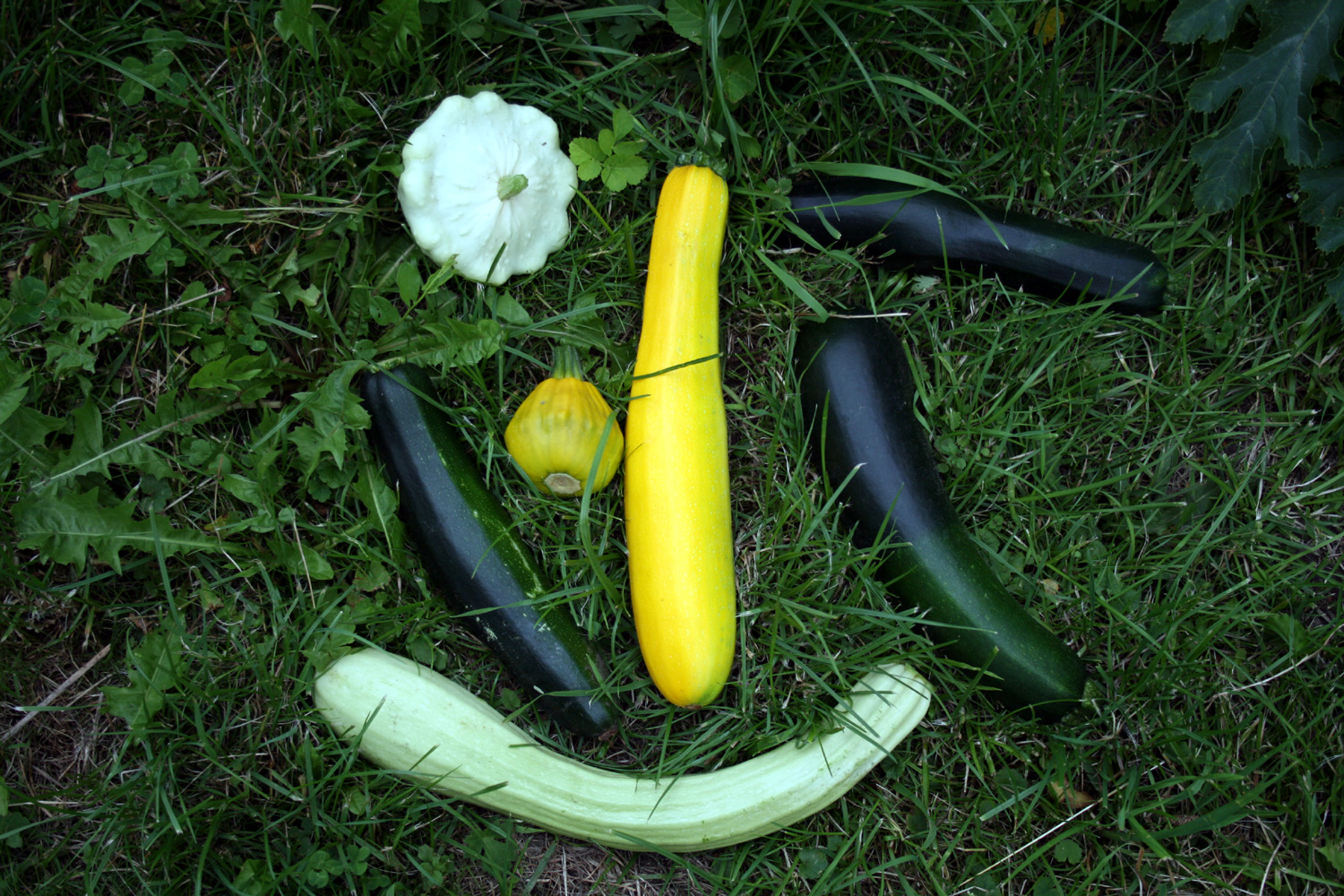 Several different kinds of zucchini and pattypan squash, Jaroměř, Czech Republic